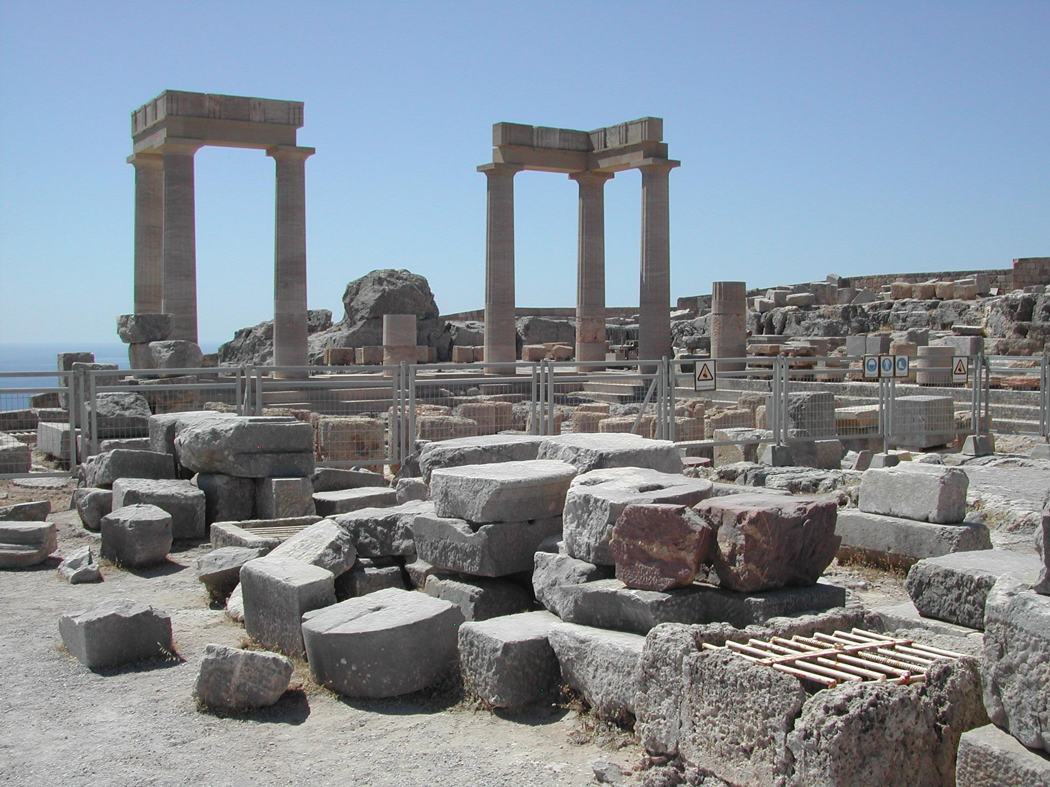 The Acropolis of Lindos